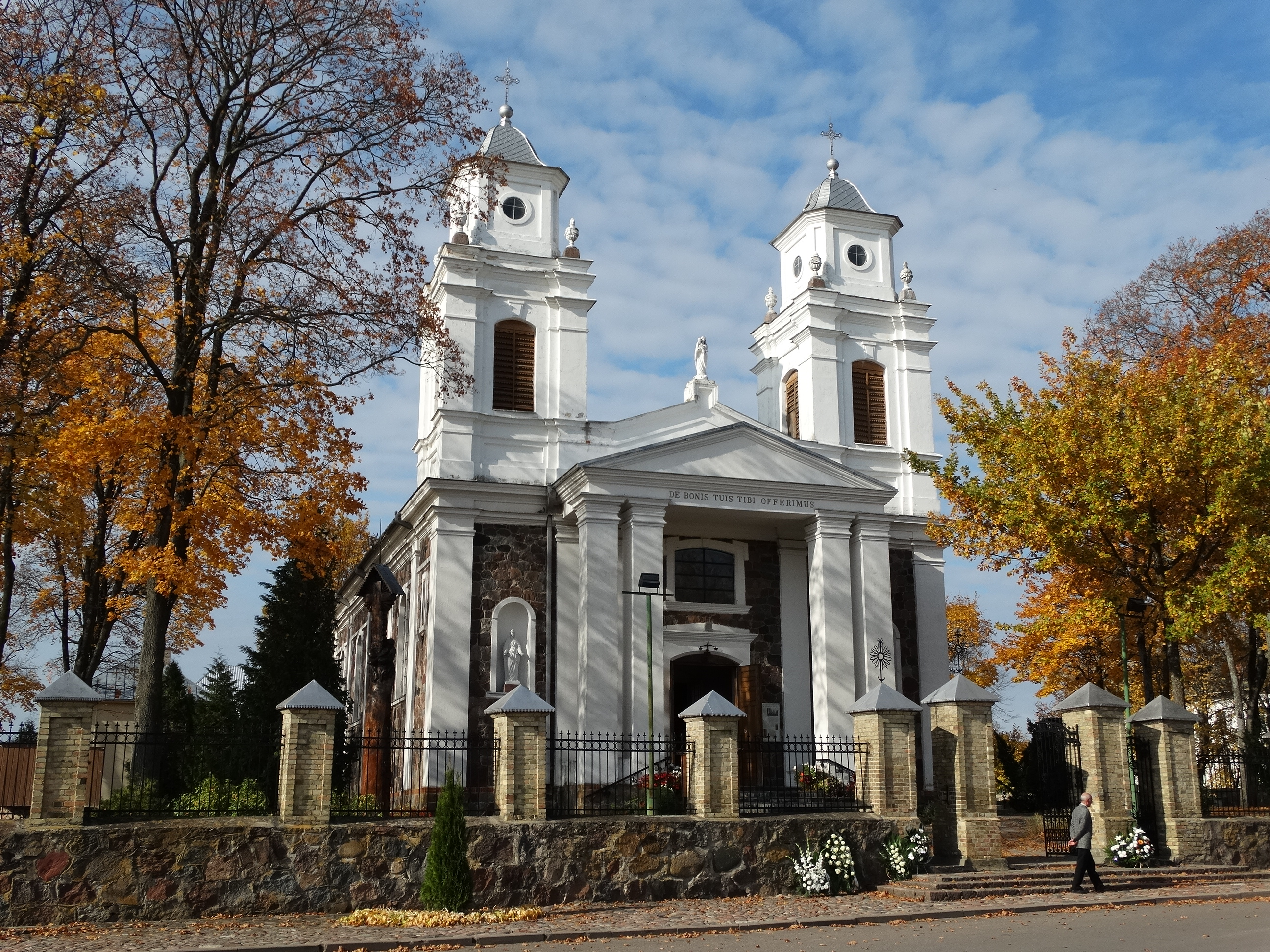 Roman Catholic Church, Lazdijai, Lithuania